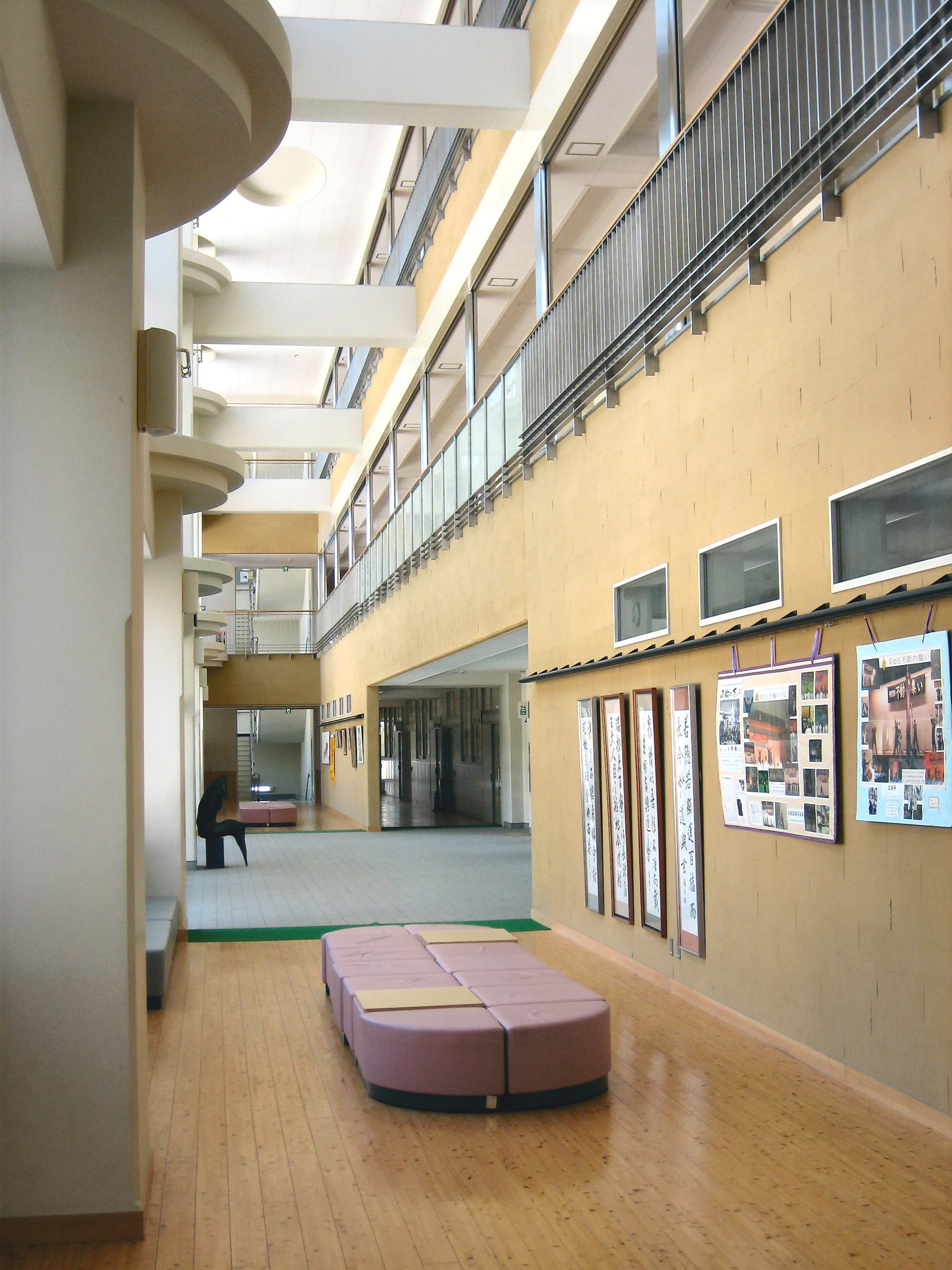 Saitama Prefectural Fudooka High School